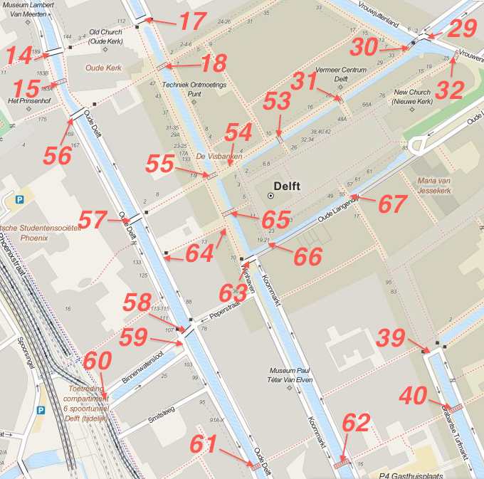 Map has bridges marked in the centre area of Delft. Map is based on Part 5 of 6.